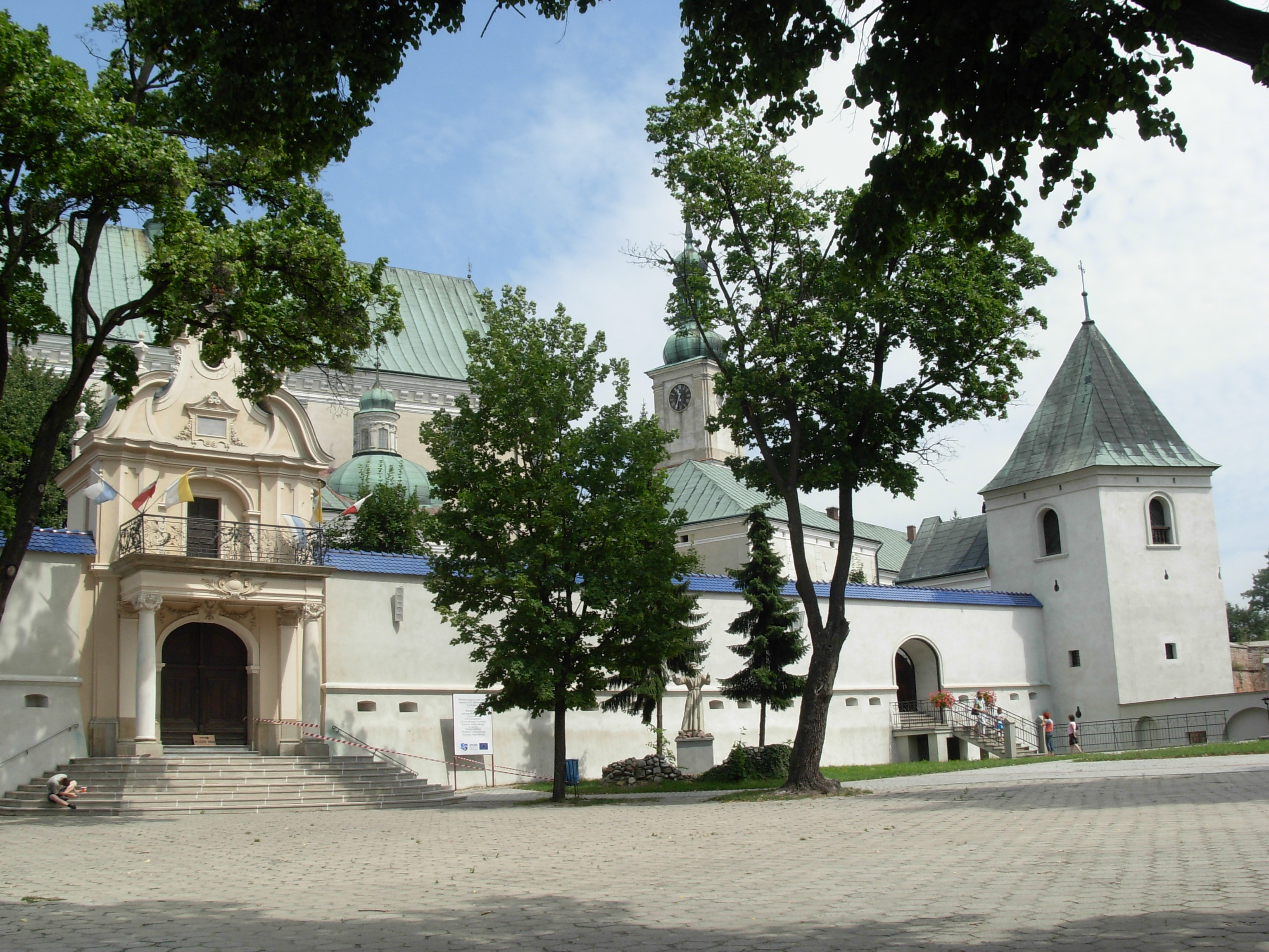 Bernardine Monastery in Leżajsk, Poland.